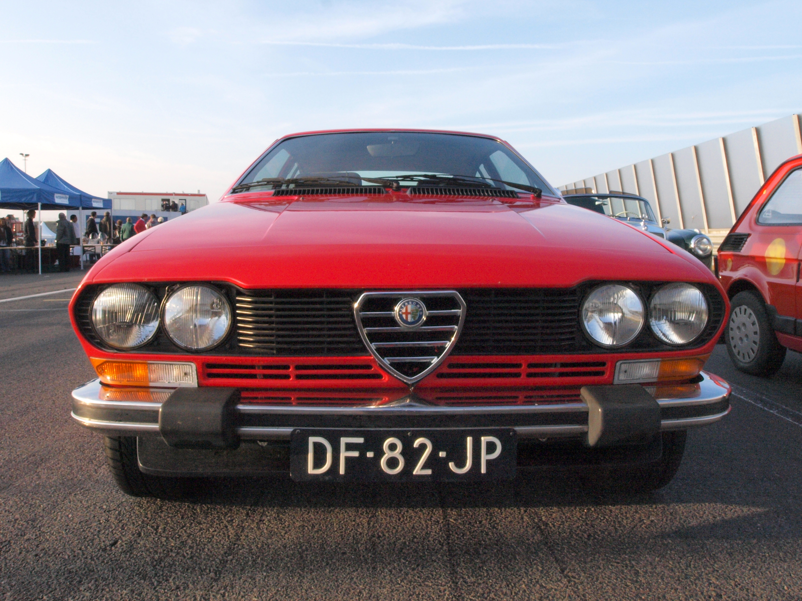 Photographed at the Nationaal Oldtimer Festival Zandvoort 2009, The Netherlands. OLYMPUS DIGITAL CAMERA